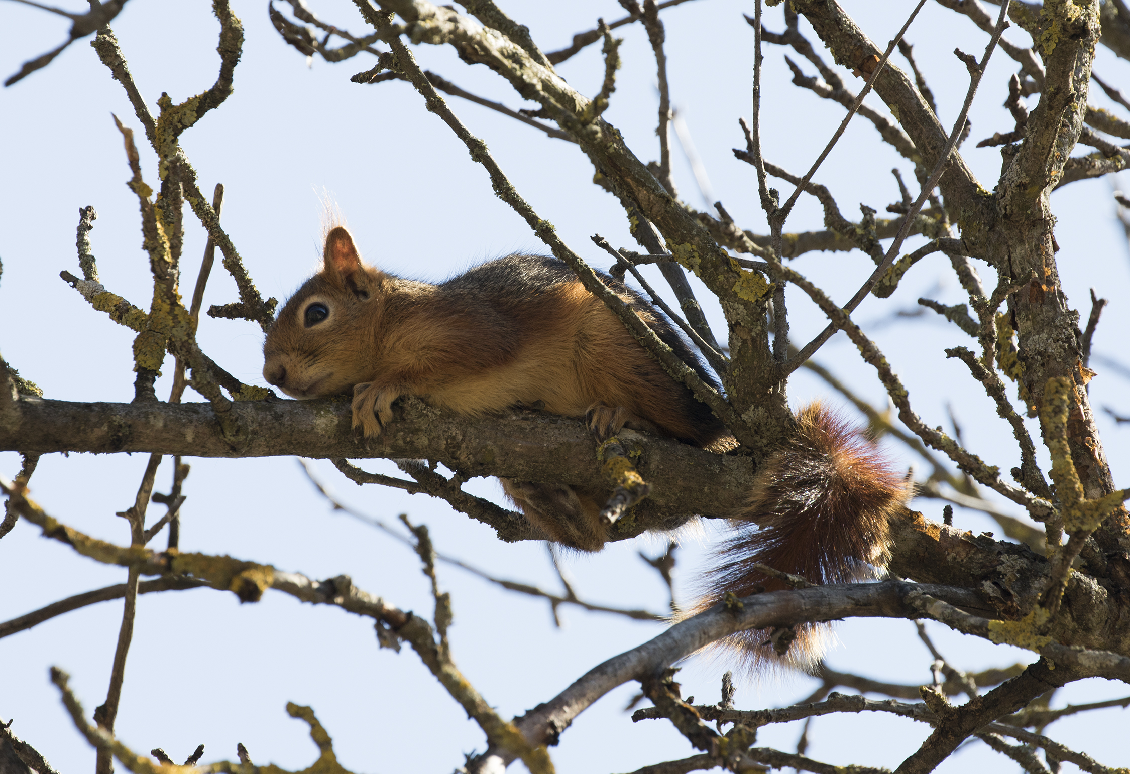 A Caucasian Squirrel (Sciurus anomalus) resting on the branches of a tree. Saimbeyli - Adana, Turkey.